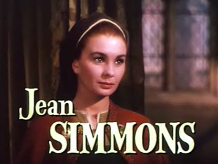 Cropped screenshot of Jean Simmons from the trailer for the film Young Bess